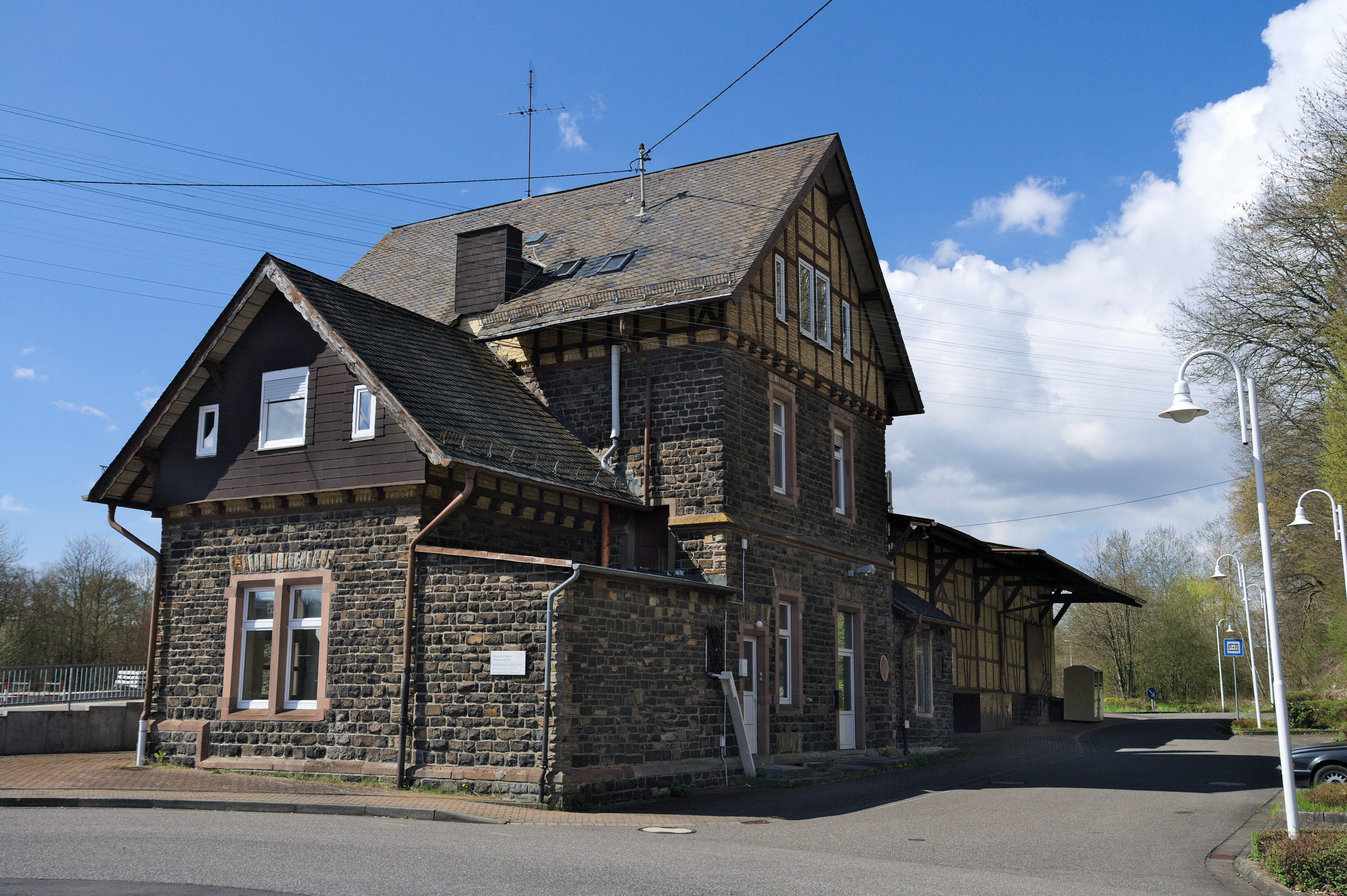 Railway station Nistertal/Bad Marienberg (formerly Erbach) at the Oberwesterwaldbahn (Altenkirchen-Limburg, Germany). Southern part. Cultural heritage monument, erected approx. 1885. Location: Bahnhofstraße, Nistertal, Westerwald, Germany